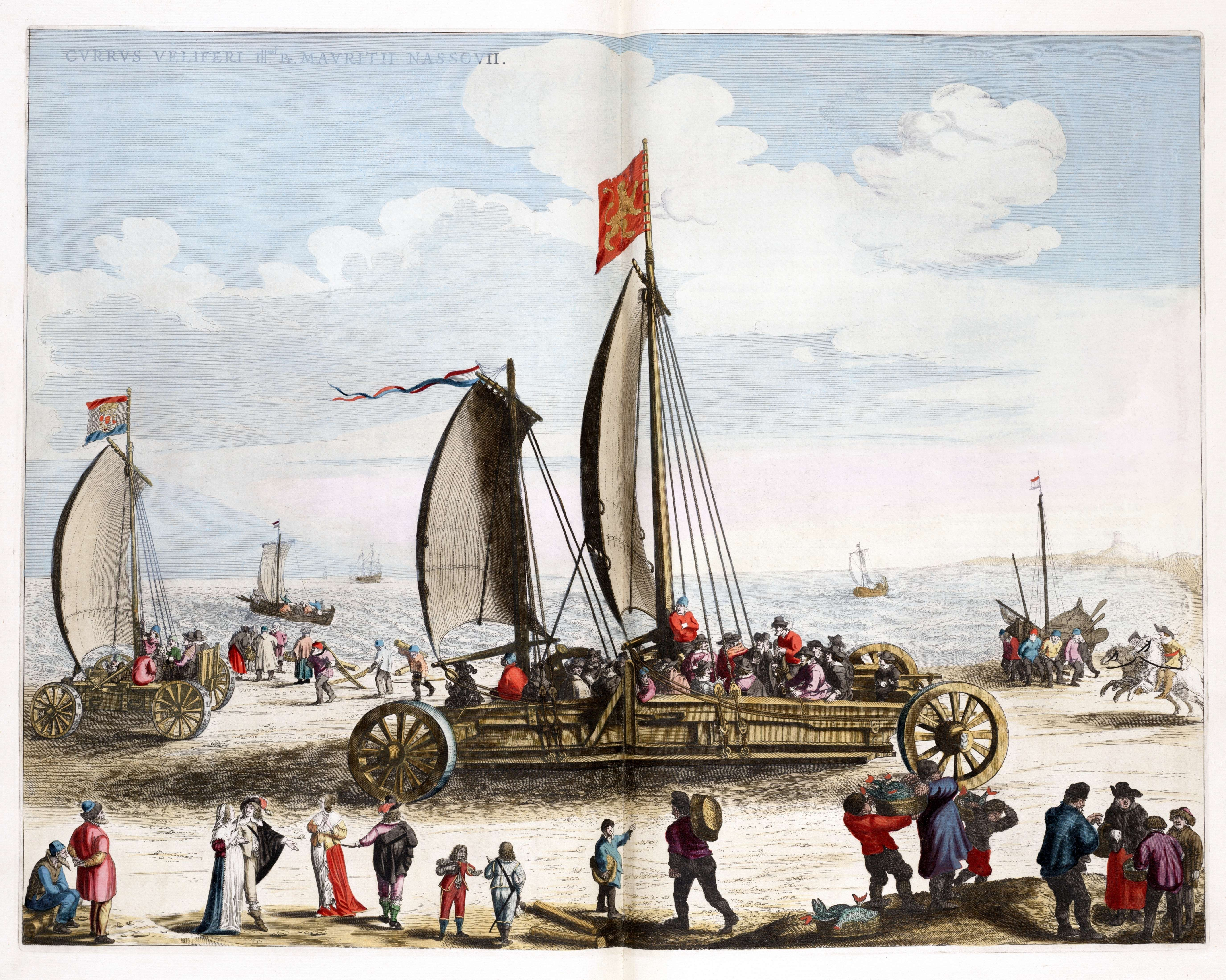 Simon Stevin built two land-yachts for Prince Maurice. He used them on the beach to entertain his guests.